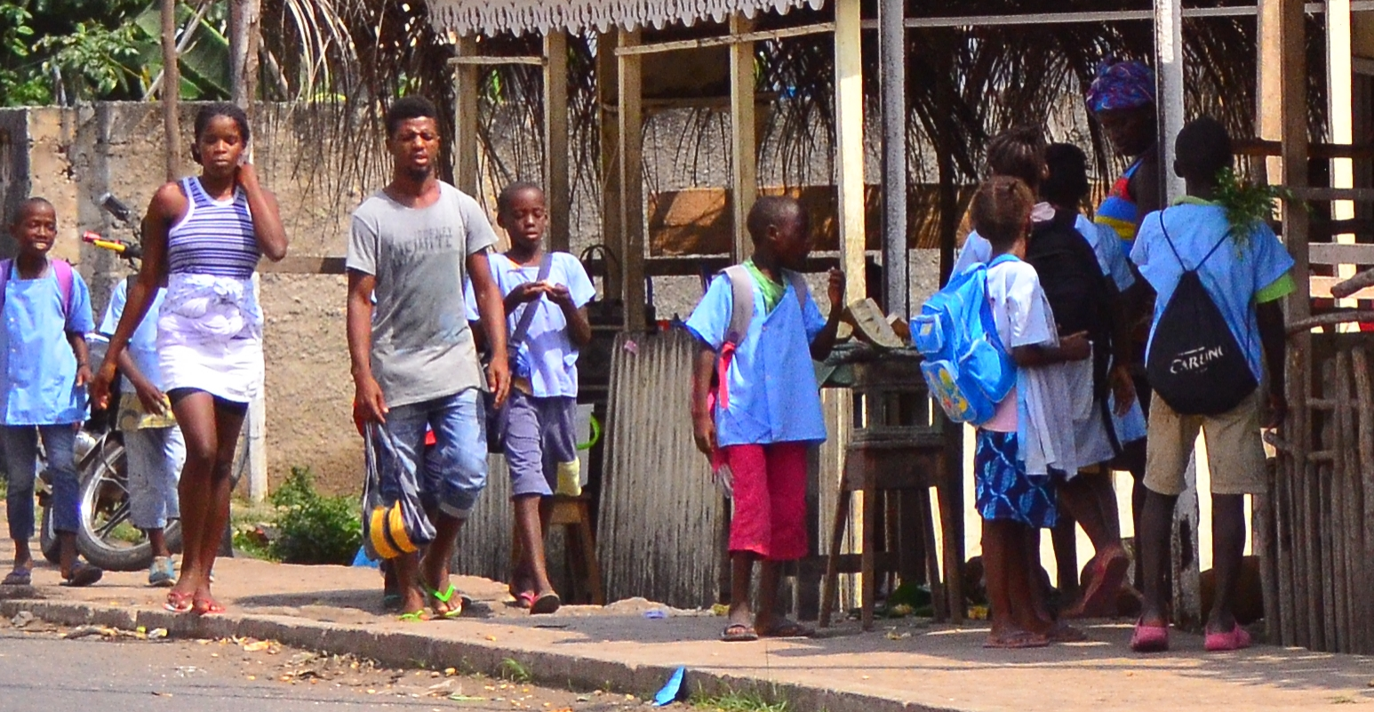 The Sao Tome school run